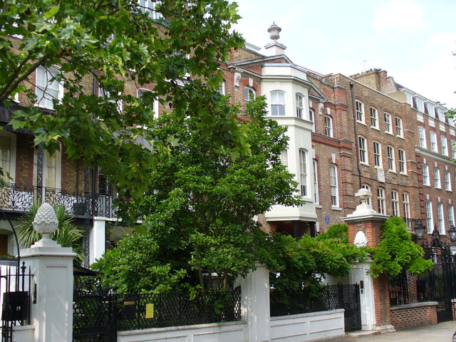 Grandiose Cheyne Walk Unspoilt 18th Century terraced housing facing the Thames at Chelsea Reach. The house with the white bay frontage was once occupied by pre-Raphaelite painter, Dante Gabriel Rossetti.